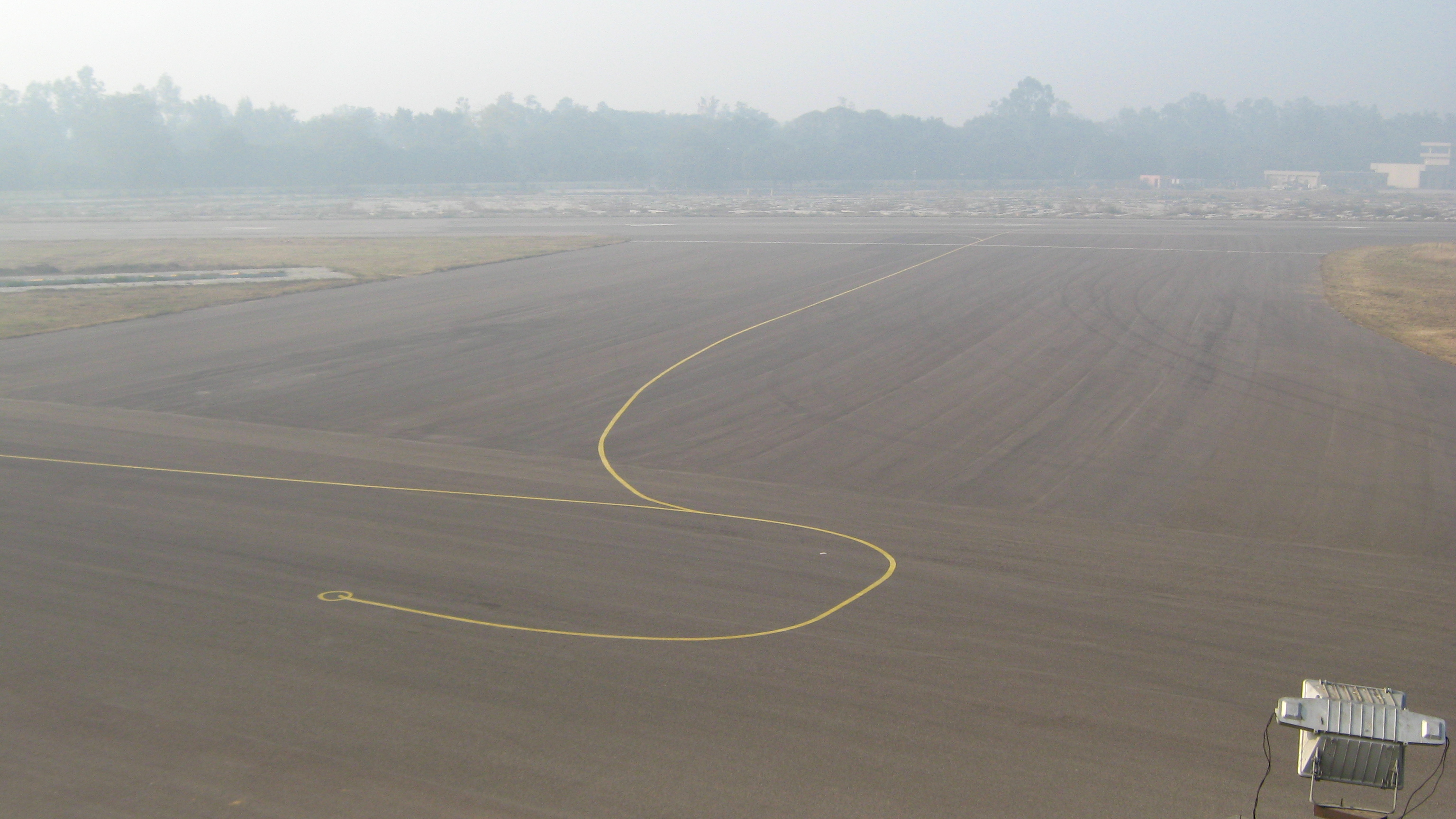 Safdarjung Airport, airside